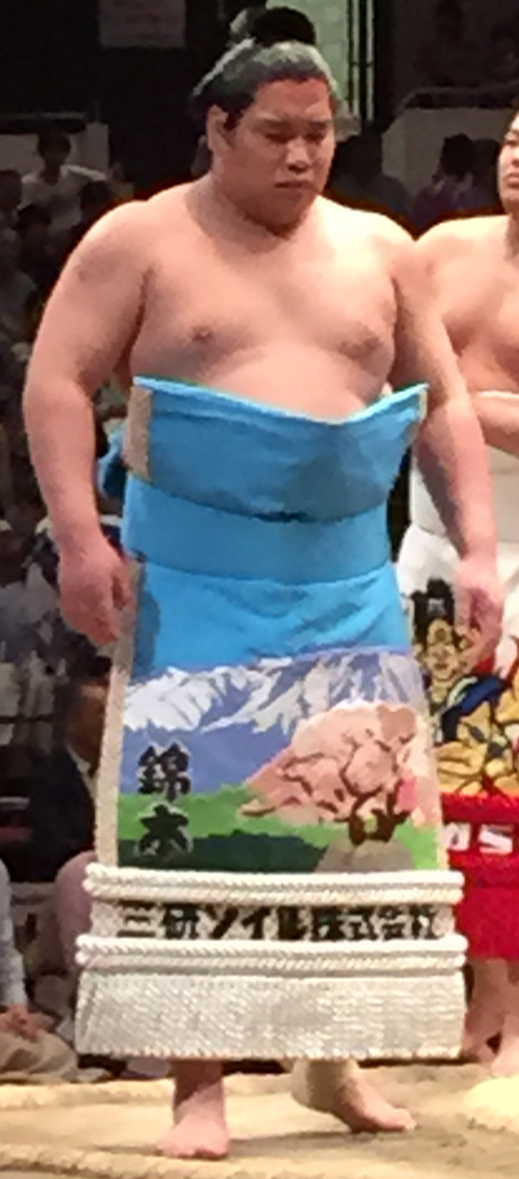 Taken at May 2015 tournament